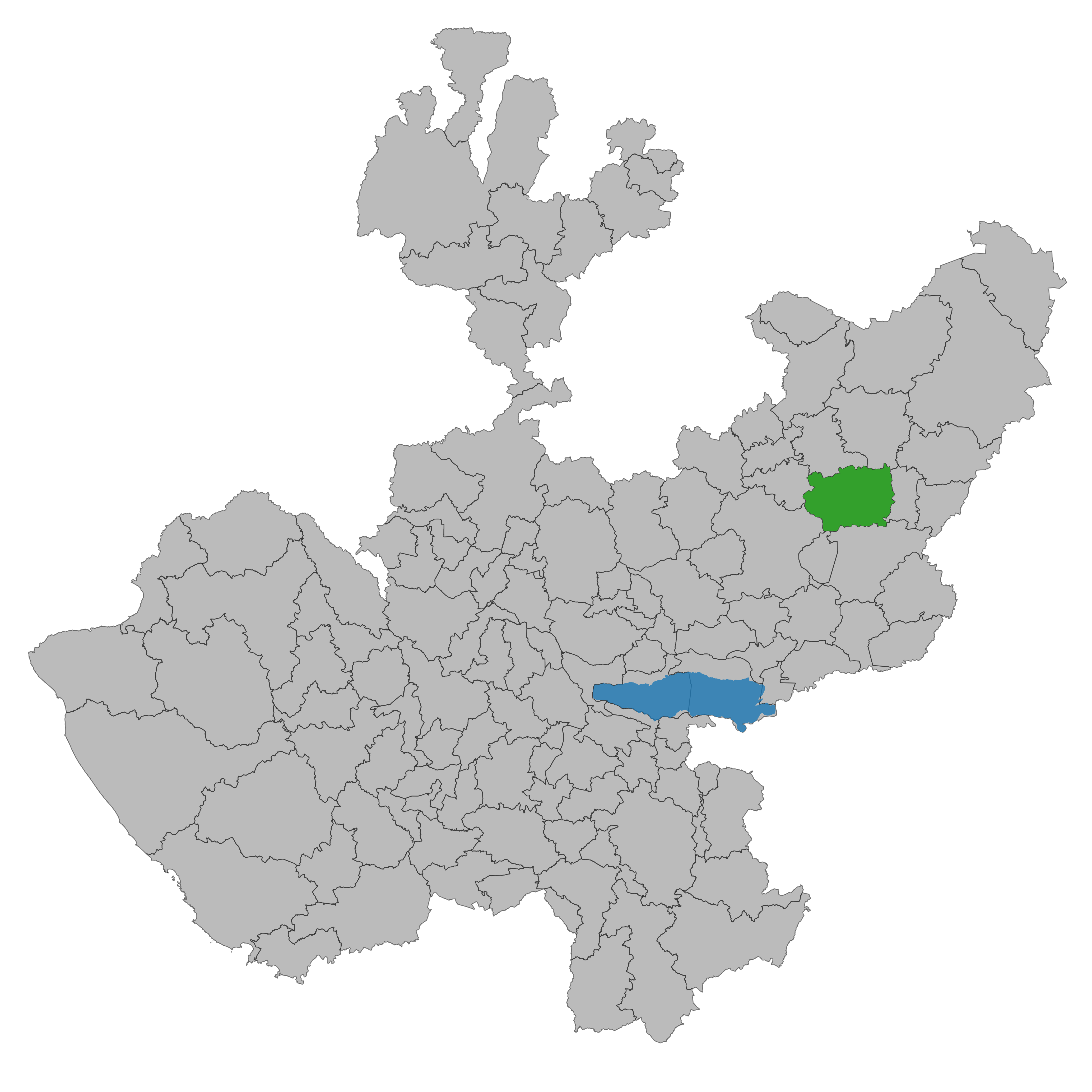 Municipality of Jalisco. Prepared with the software QGIS version 2.8.2 Wien & with information of SCINCE 2010 version 05/2013